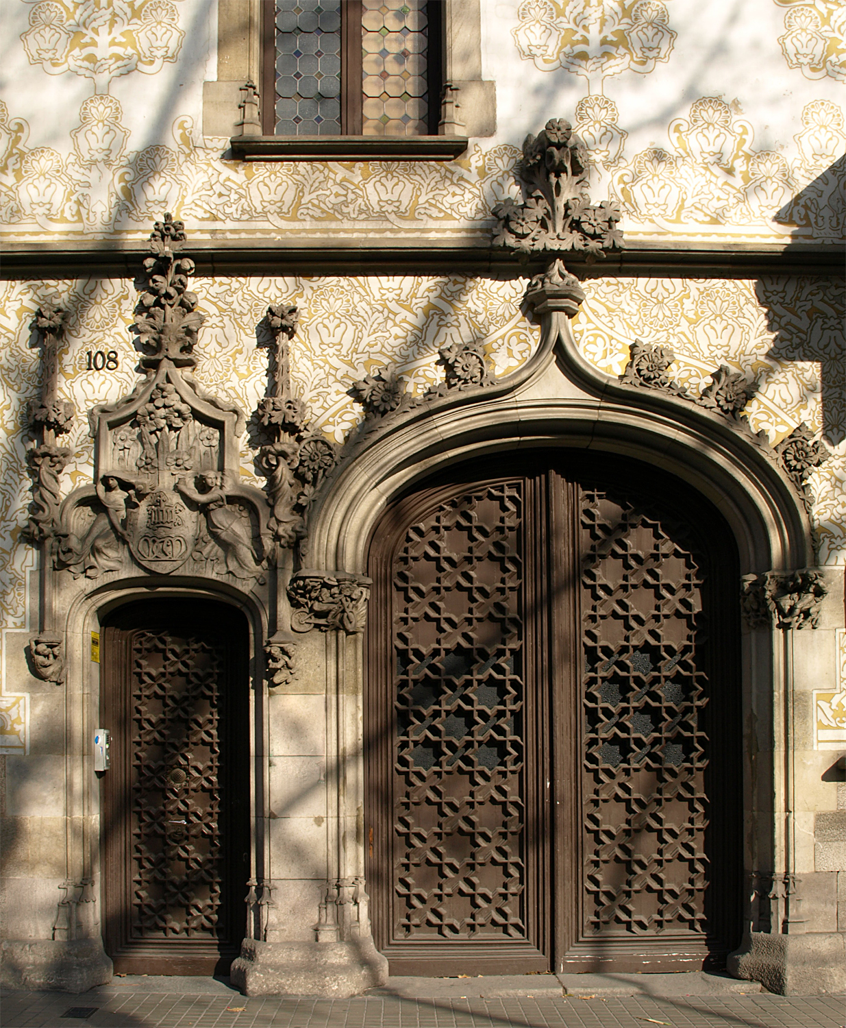 Casa Macaya - Catalan Modernisme (1901, Josep Puig i Cadafalch)